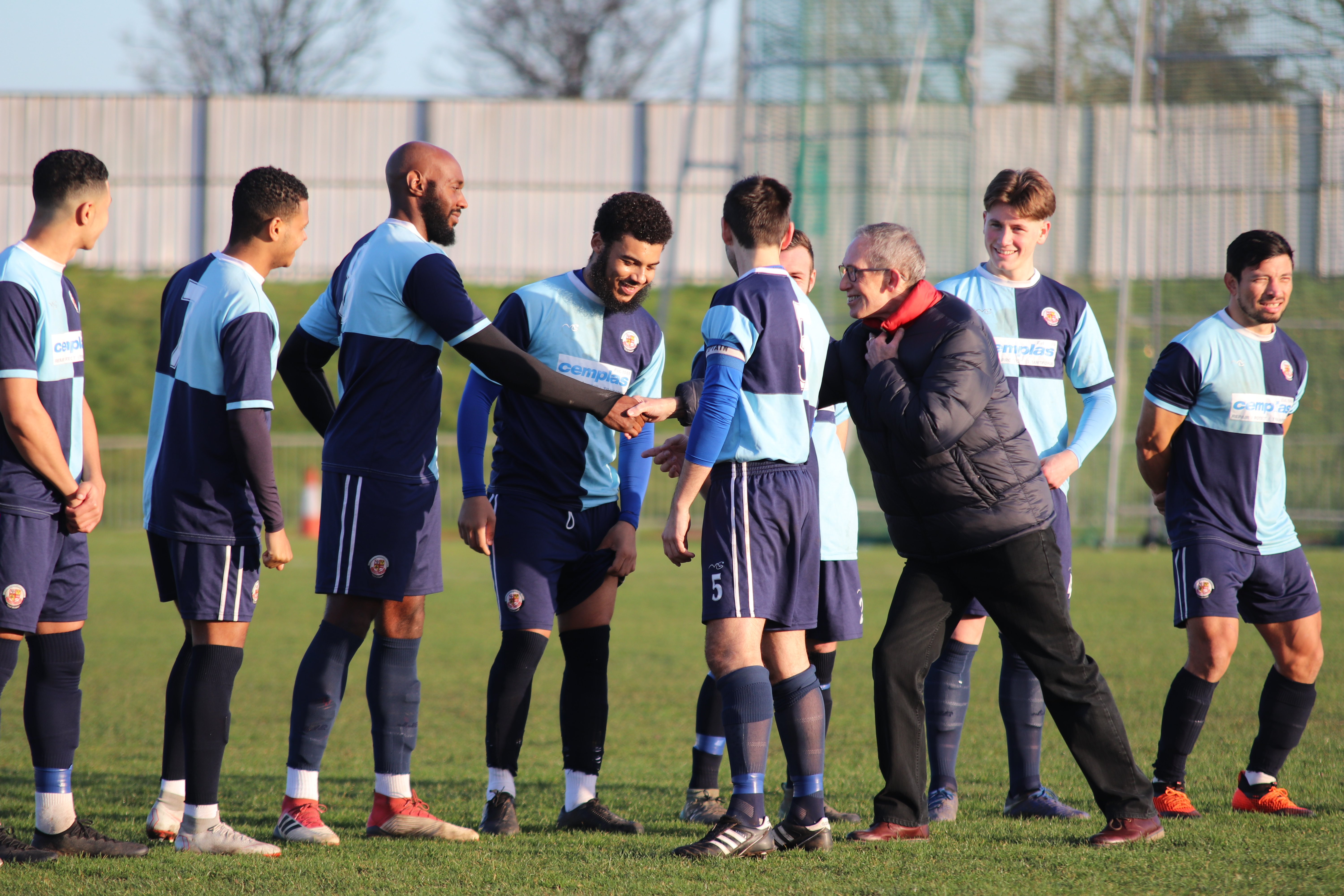 Alec Jackson, Captain of the 79/80 cup run team, meeting players of the 19/20 Croydon FC squad. Jan 2020